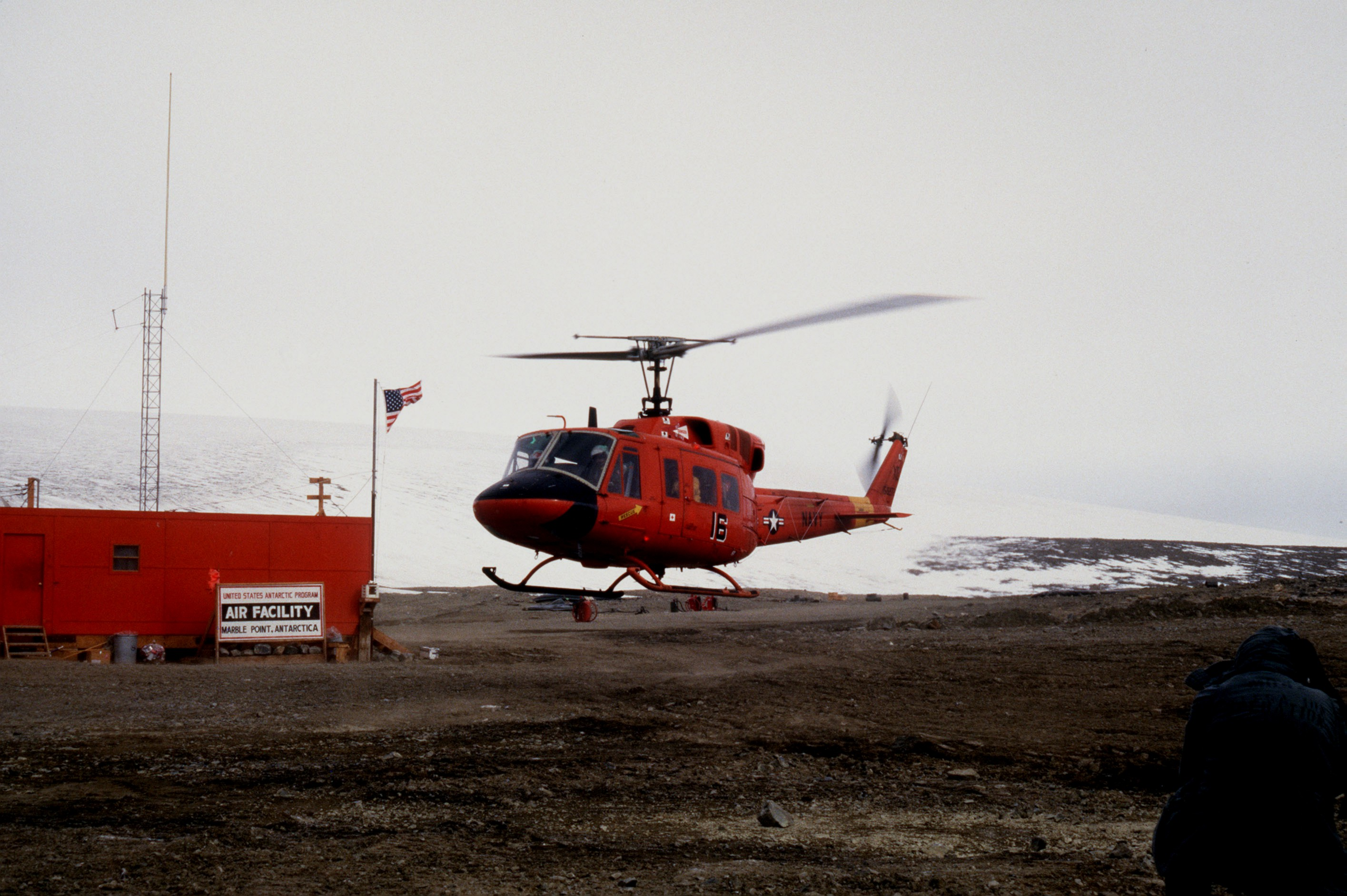 A U.S. Navy Bell UH-1N Twin Huey helicopter of Antarctic Development Squadron 6 (VXE-6) departs on a scientific support mission after refueling at Marble Point Air Facility during Operation Deep Freeze on 15 June 1988.